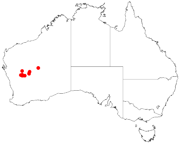 Acacia burrowsiana Occurrence data from Australasian Virtual Herbarium downloaded from on 8 December 2018